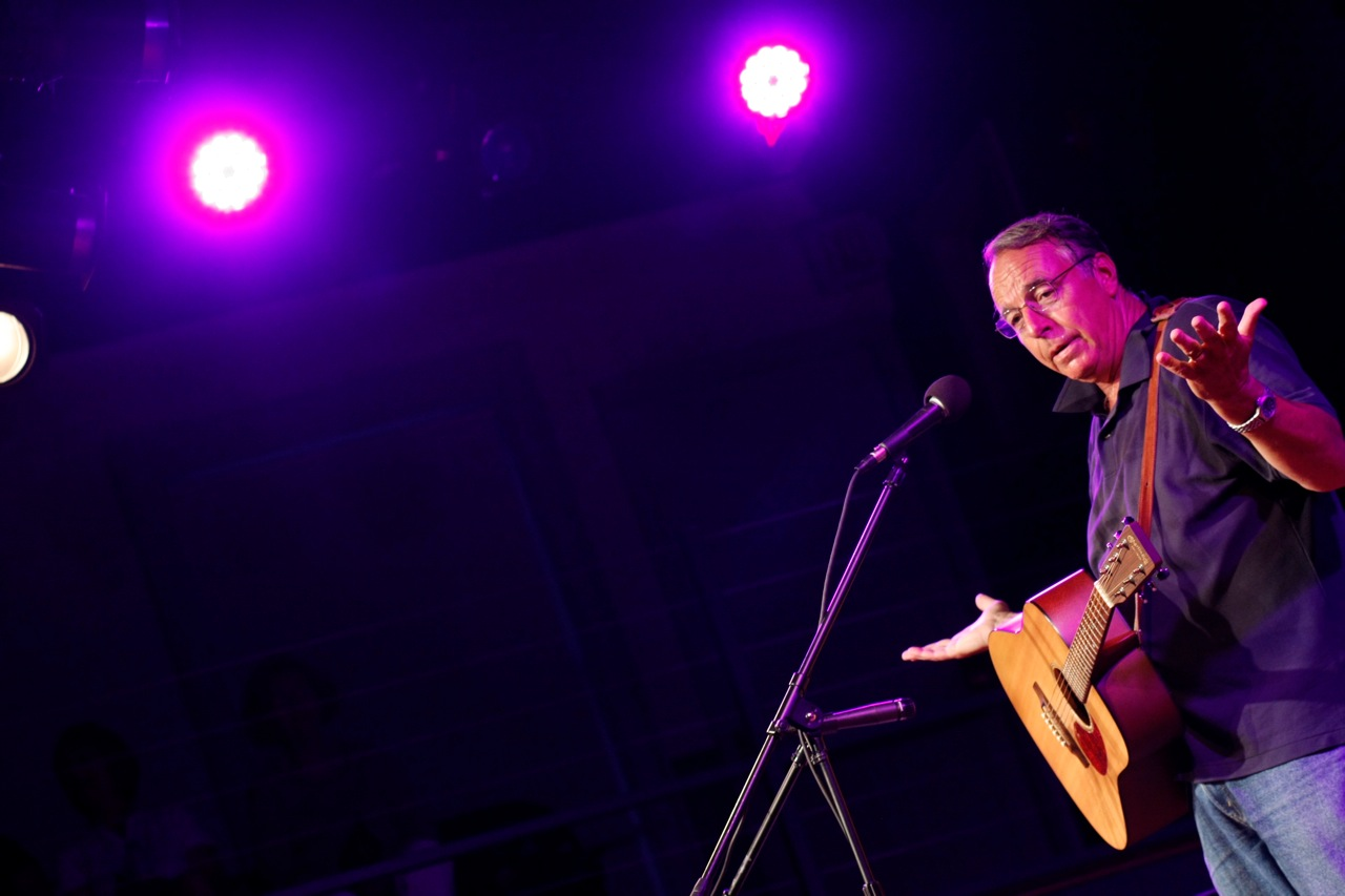 Live at the Opera House at Boothbay Harbor